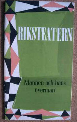 A Riksteatern playbill from 1960 for play "Mannen och hans överman" (Man and Superman) by George Bernhard Shaw.